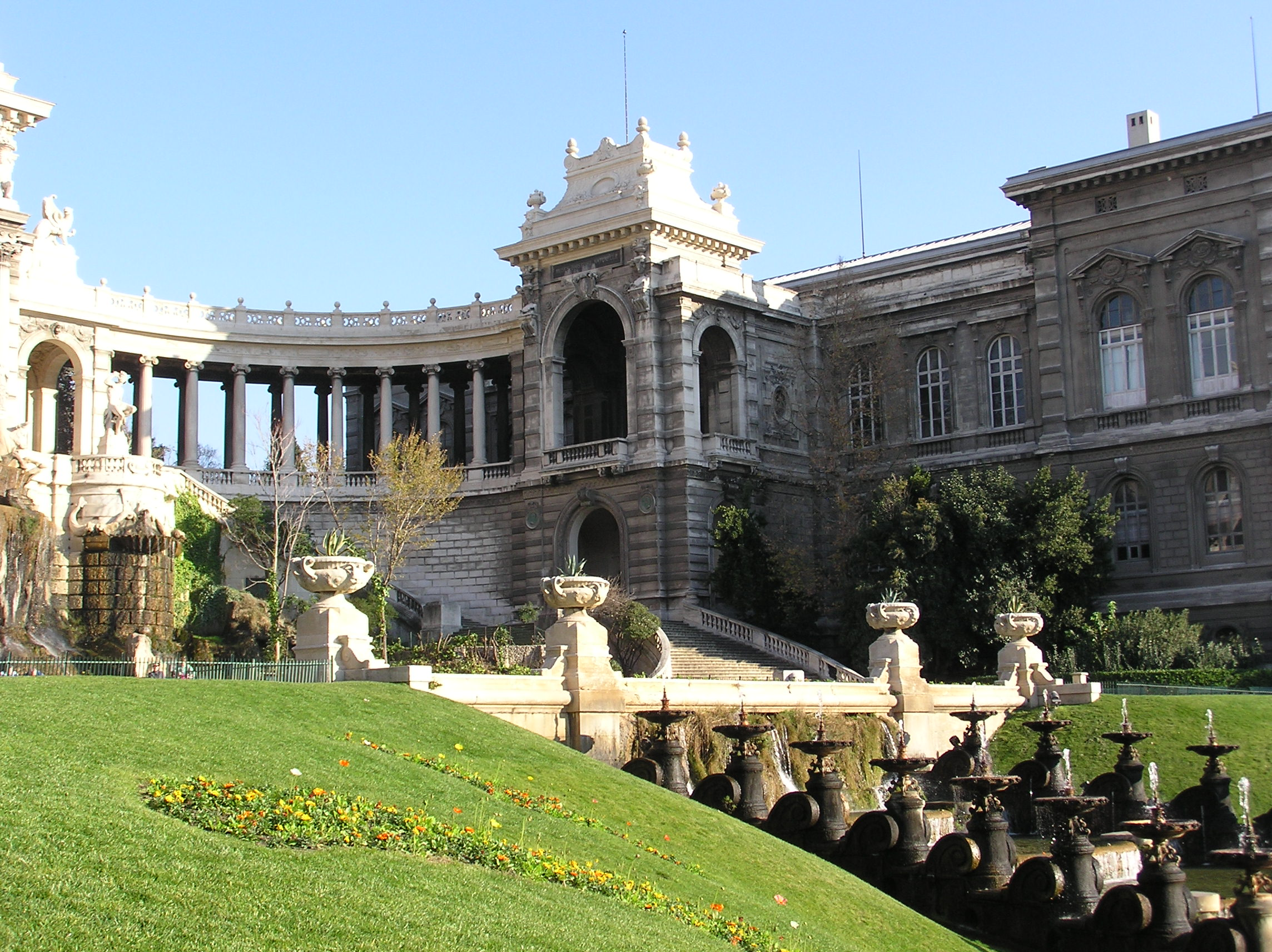 Front of the Palais Longchamps in Marseille - Natural Historiy Museum